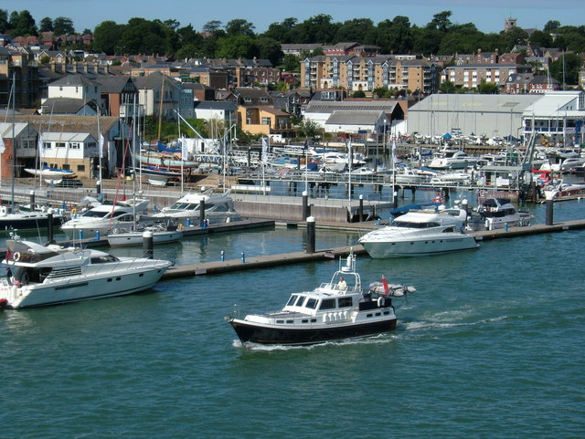 Cowes Marina. taken from ferry to mainland